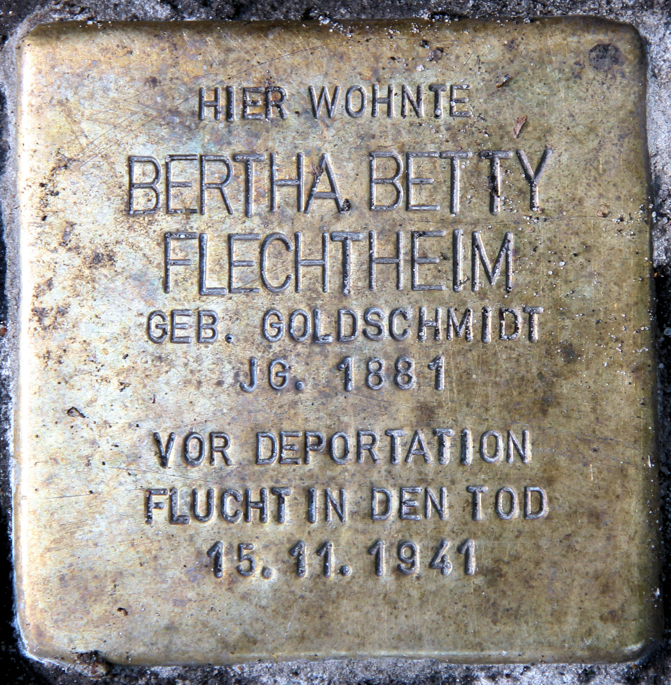 "Stolperstein" (stumbling block), Bertha Betty Flechtheim, Düsseldorfer Straße 44, Berlin-Wilmersdorf, Germany Koordinate:52°29′49″N 13°18′37″E / 52.49694°N 13.31028°E